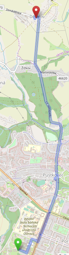 OpenStreetMap cut-out (or derivative work based on it)